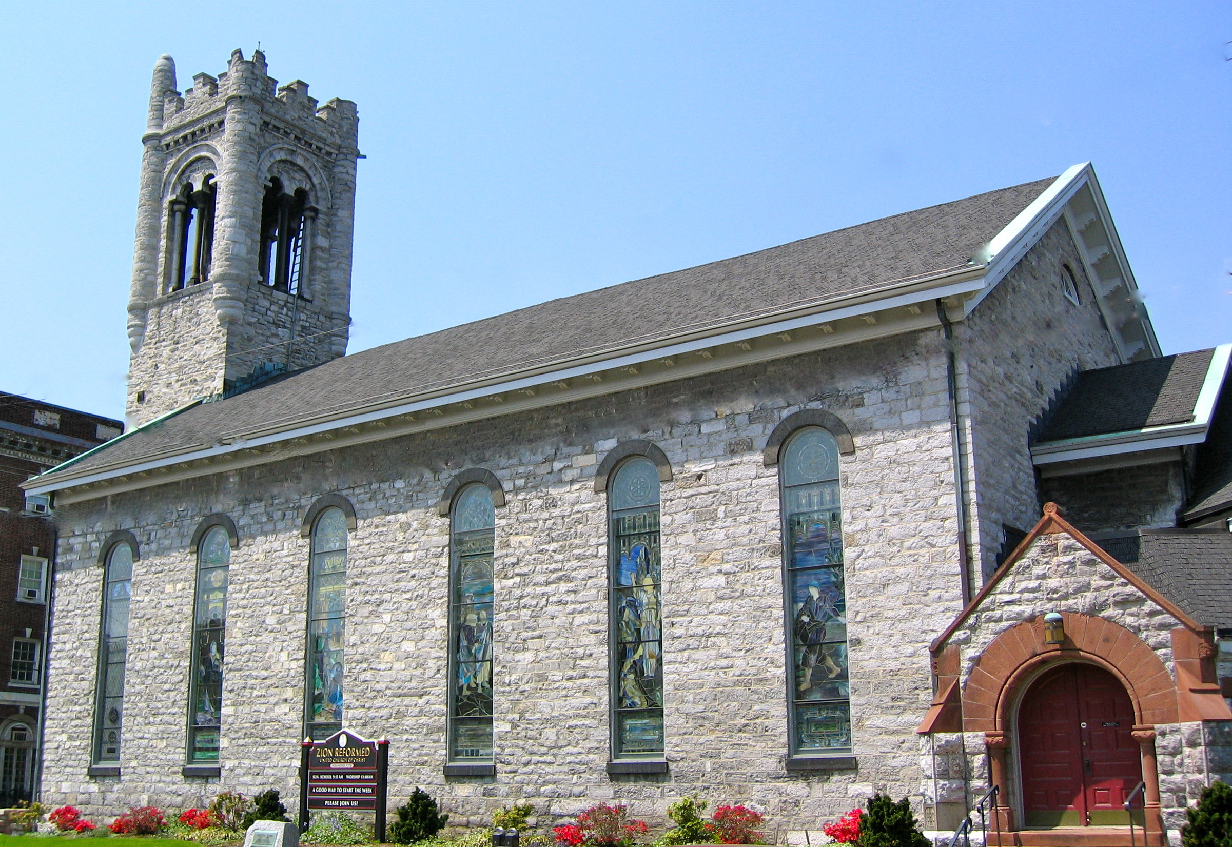 Zion Reformed United Church of Christ May 2004. Exterior of the building built in 1770. Hagerstown, Maryland